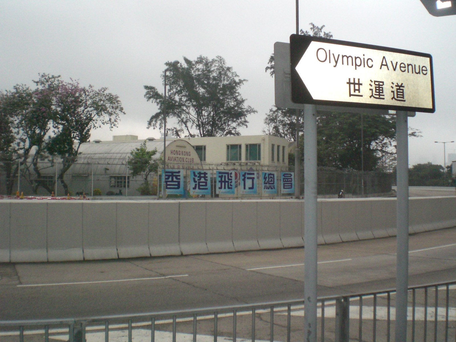 九龍城 香港飛行總會 世運道